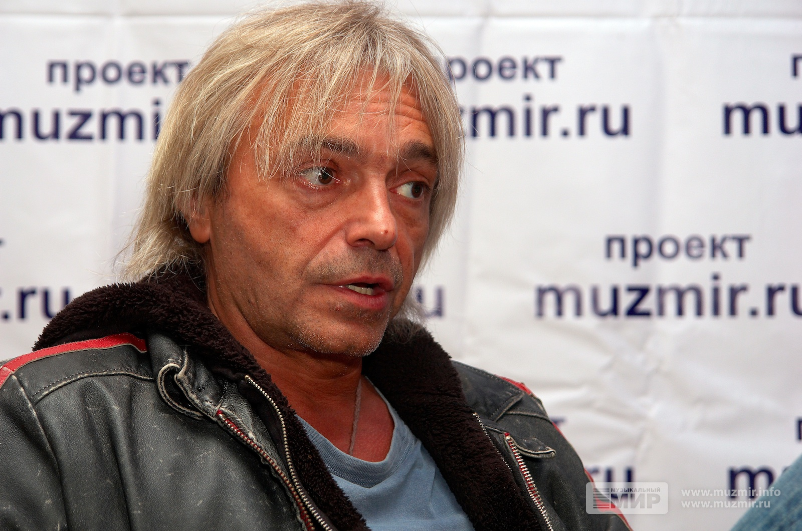 Константин Кинчев (автограф-сессия) Сыктывкар, магазин «Музыкальный мир» 2007 год.